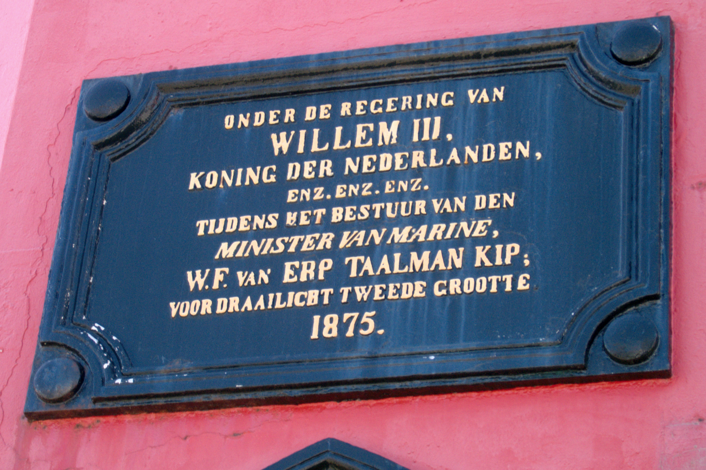 Plaque over the entrance of Scheveningen lighthouse Text on the plaque: under the reign of William III, king of the Netherlands, etc. etc. etc. during the administration of the minister of navy, W.F. van Erp Taalman Kip; for revolving light second order 1875.